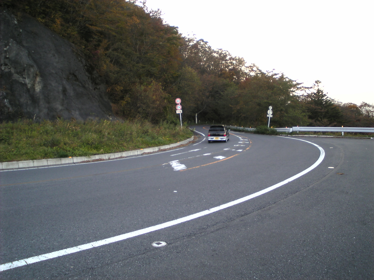 The Gunma Prefectural Road Route 33 in Shibukawa City